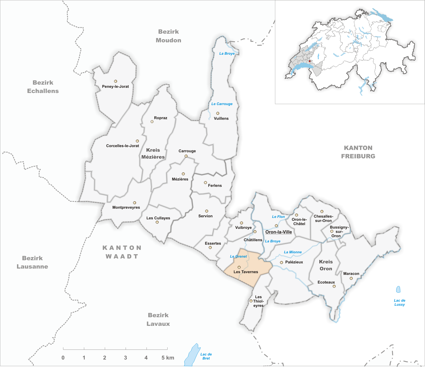 Municipality Les Tavernes